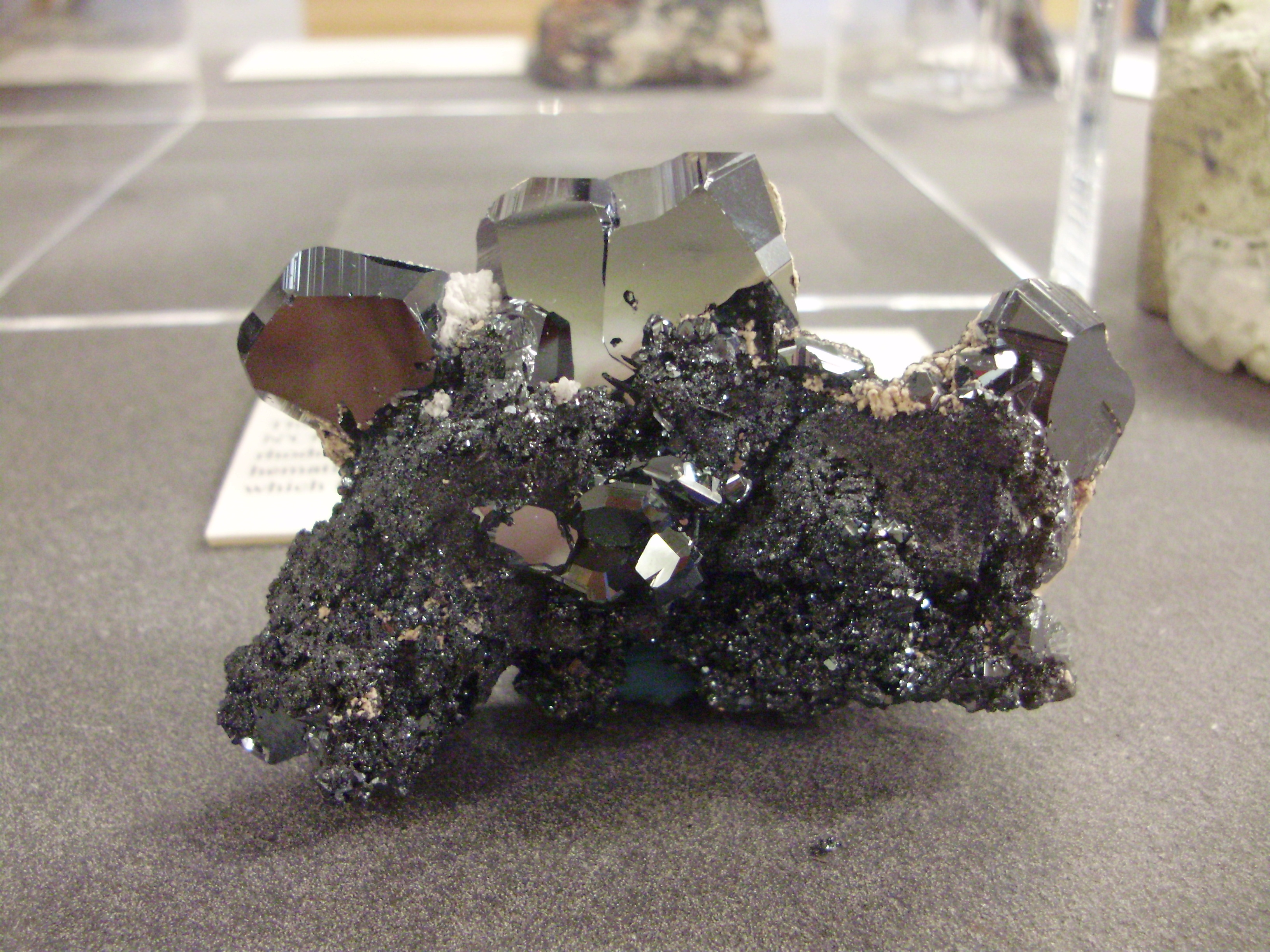 Crystals of hematite at the Pacific Museum of the Earth.